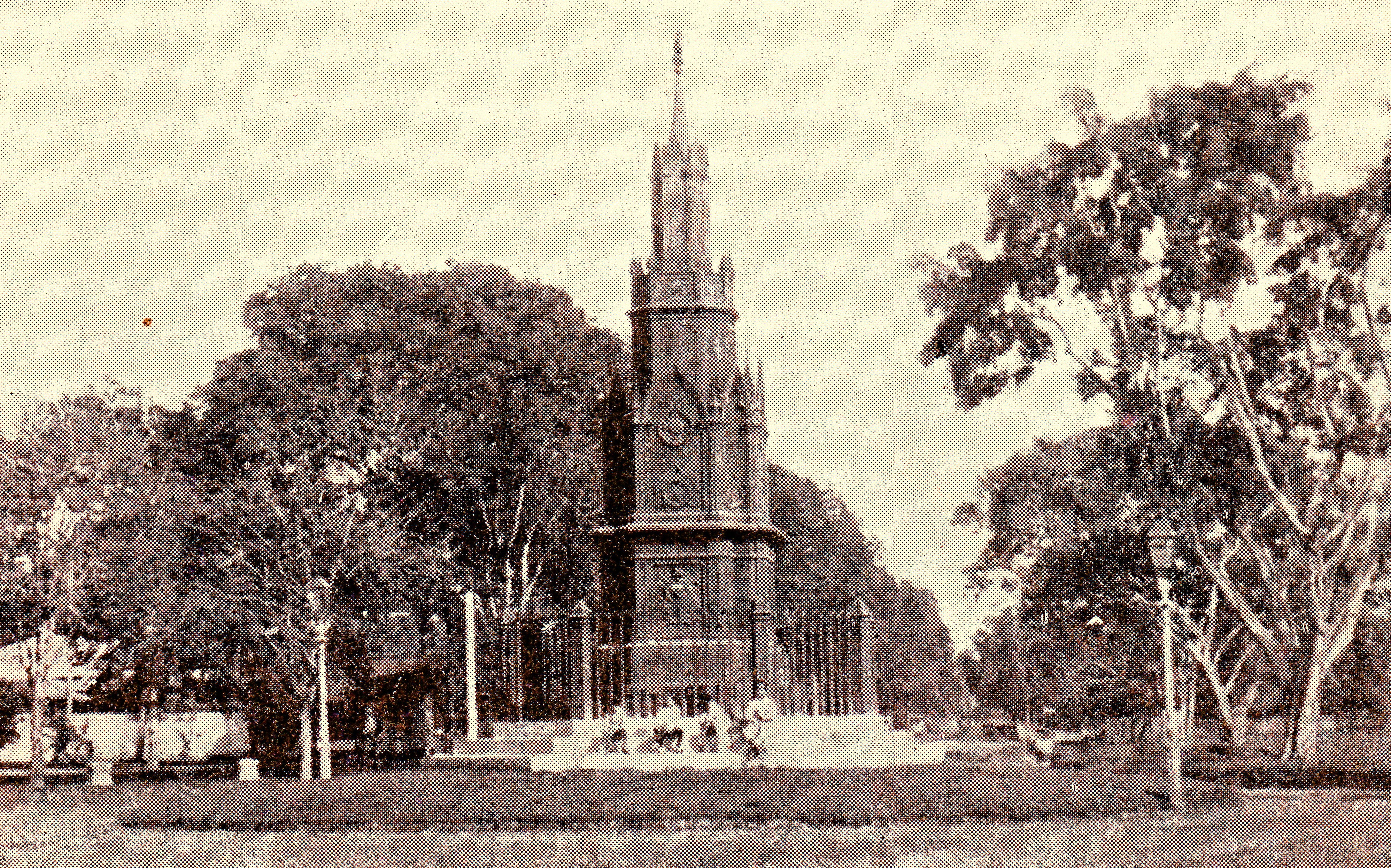 Michiels-monument